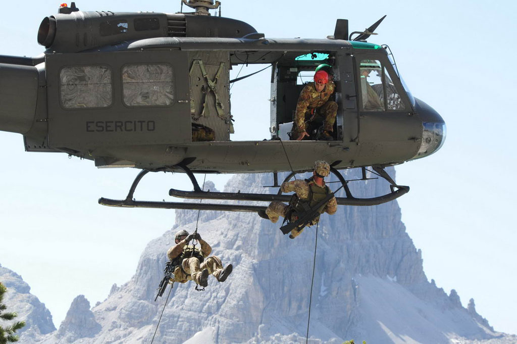 Soldiers from the 4th Alpini Parachutist Regiment of the Italian Army rappel down from an 4th Army Aviation Regiment AB205 helicopter during the Falzarego 2011 exercise.